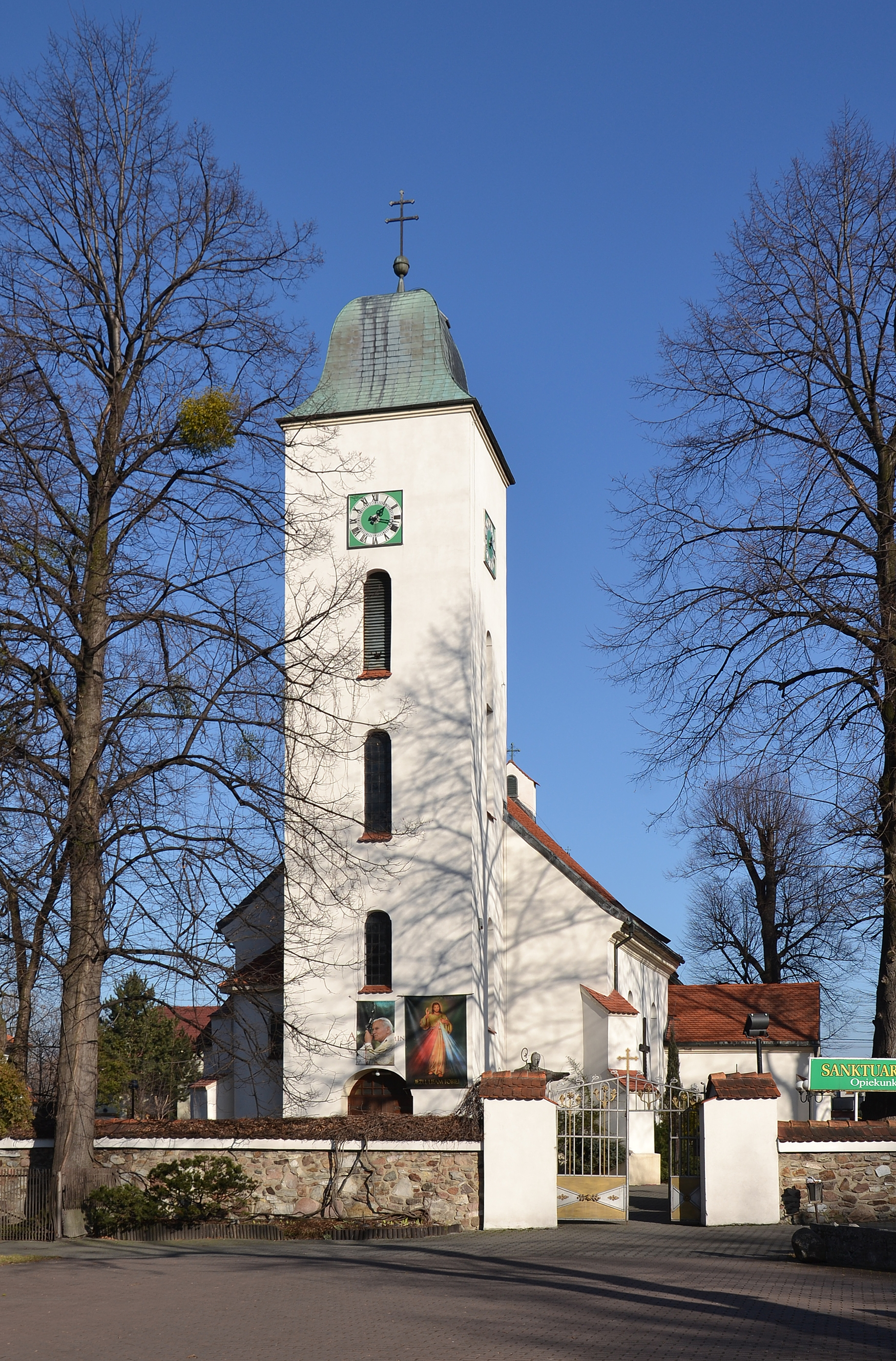 Saint Nicholas church in Mikołów-Bujaków (Nikolai-Bujakow), Silesia